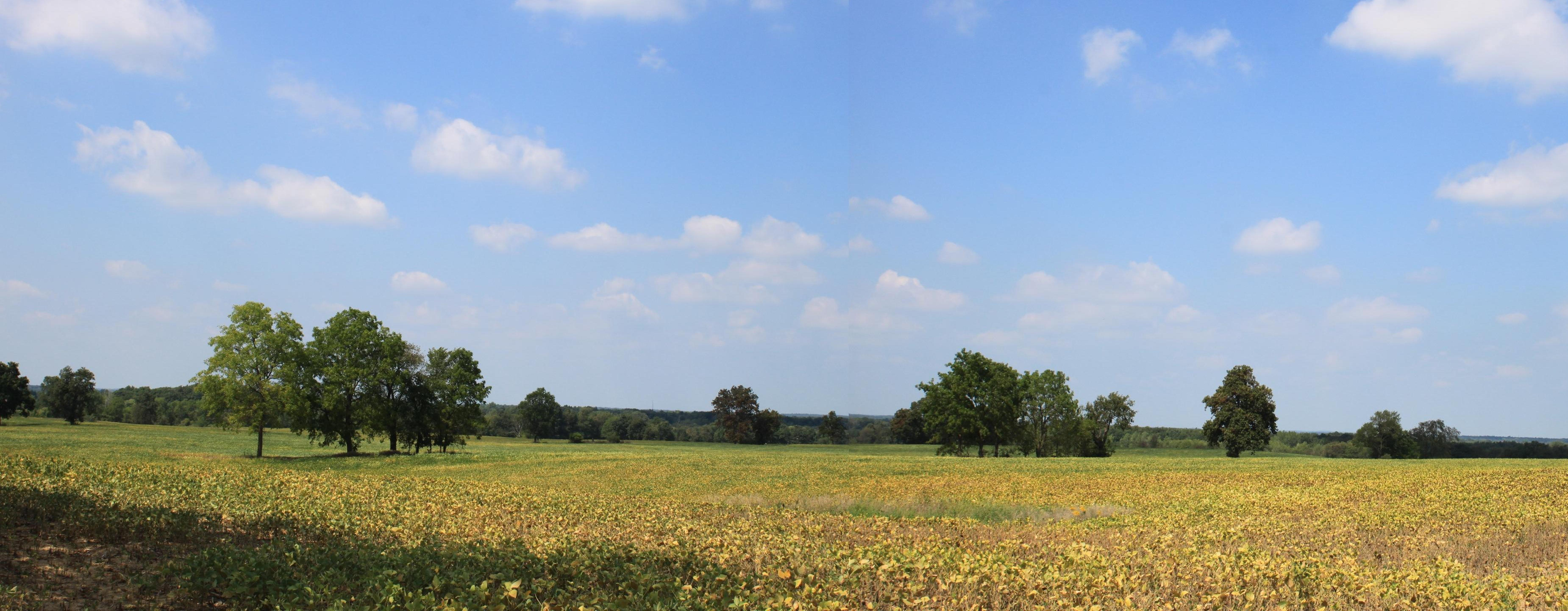 Pastoral panorama, Scio Church Road at Zeeb Road, Scio Township Michigan.